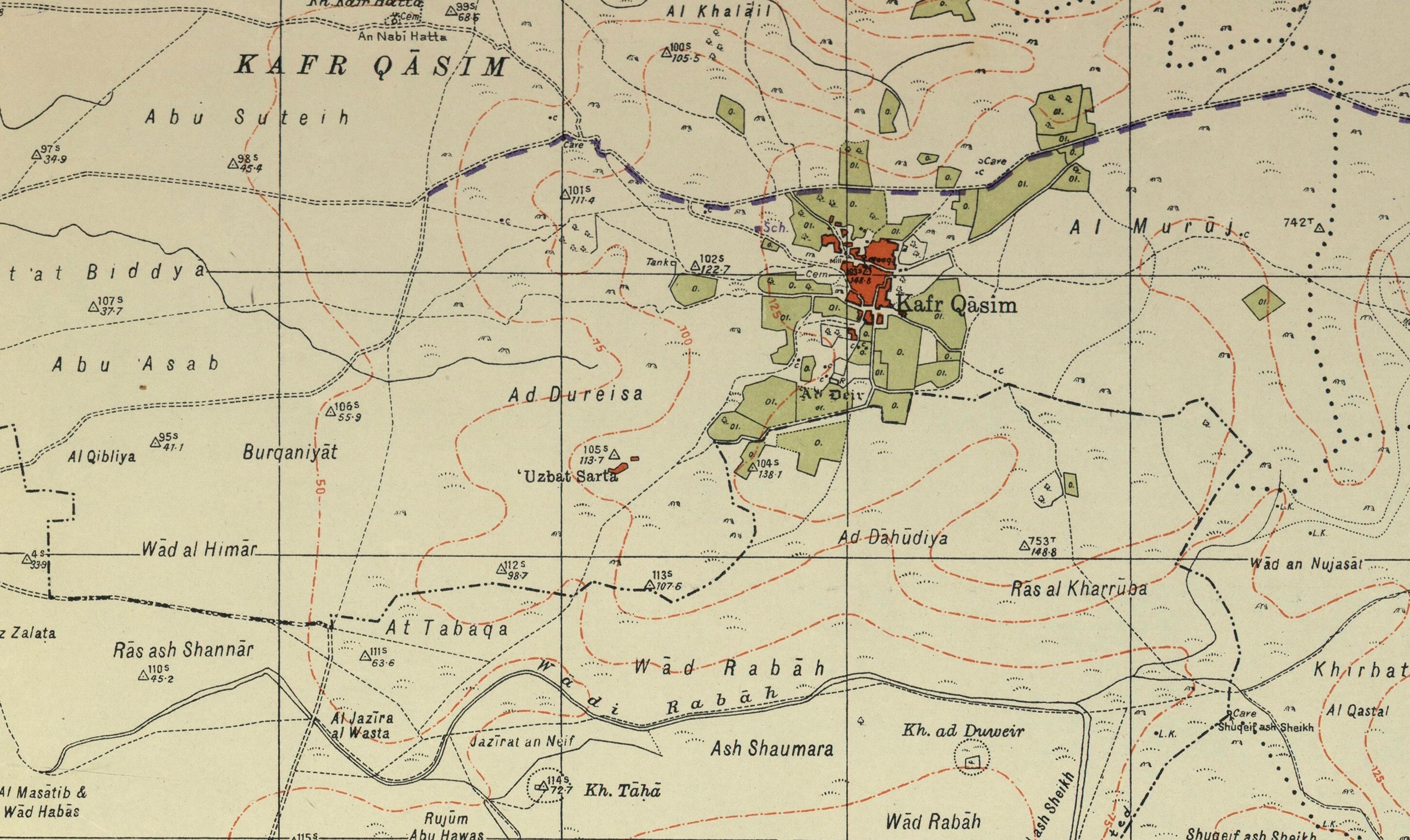 Kafr Qasim 1941 1:20,000